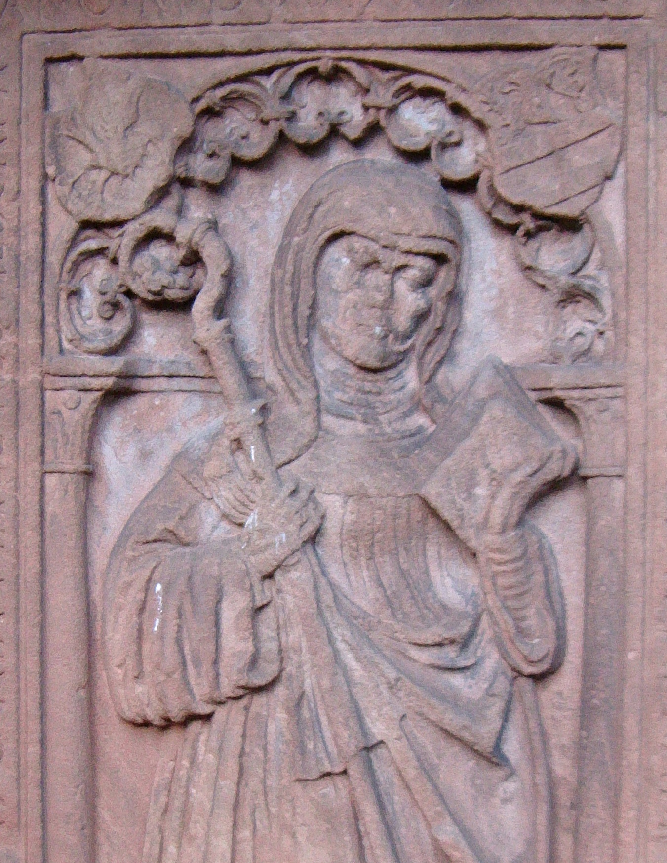 Grabplatte der Äbtissin Barbara Göler von Ravensburg (+ 1535), Kloster Rosenthal, Pfalz